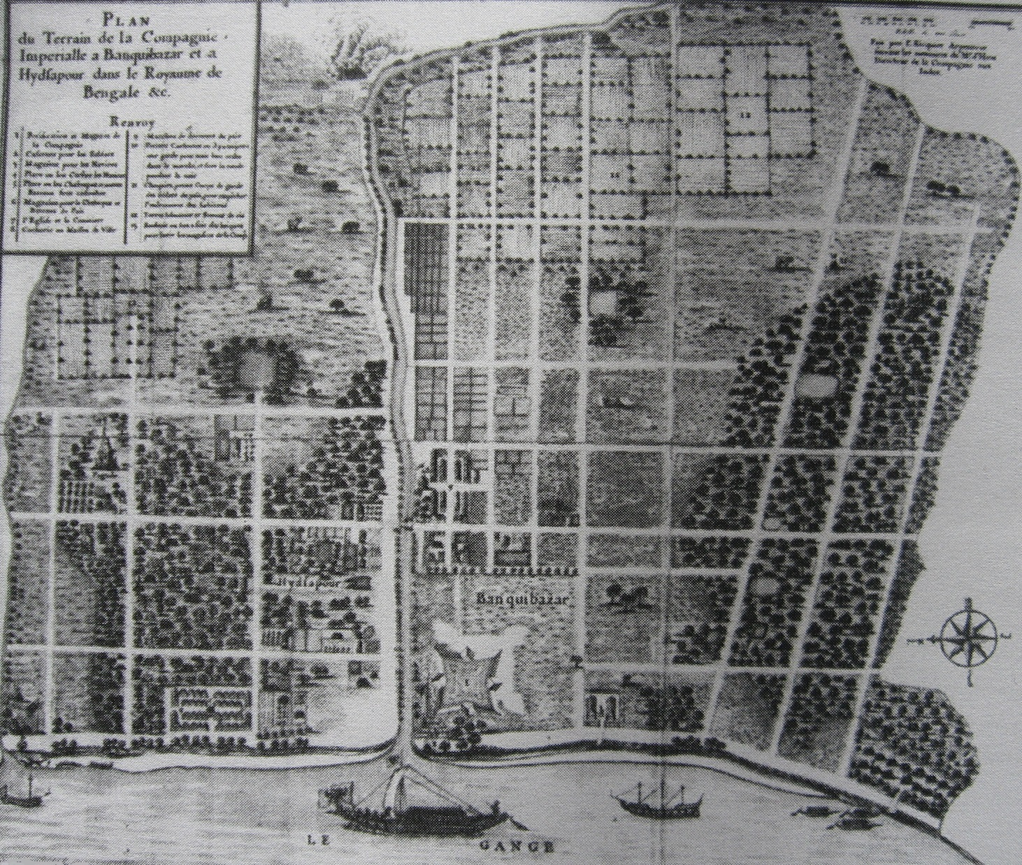 Drawing showing the territory of the factory of Banquibazar-Hydsiapour in Bengal, the headquarters of the Ostend Company in India. The north is pointing to the left on this drawing. Done during the administration of the governor, Alexander Hume ("M. d'Hume, directeur de la Compagnie des Indes" as is written in the upper right-hand corner of the drawing). 1764 copy of the original drawing (c. 1730).